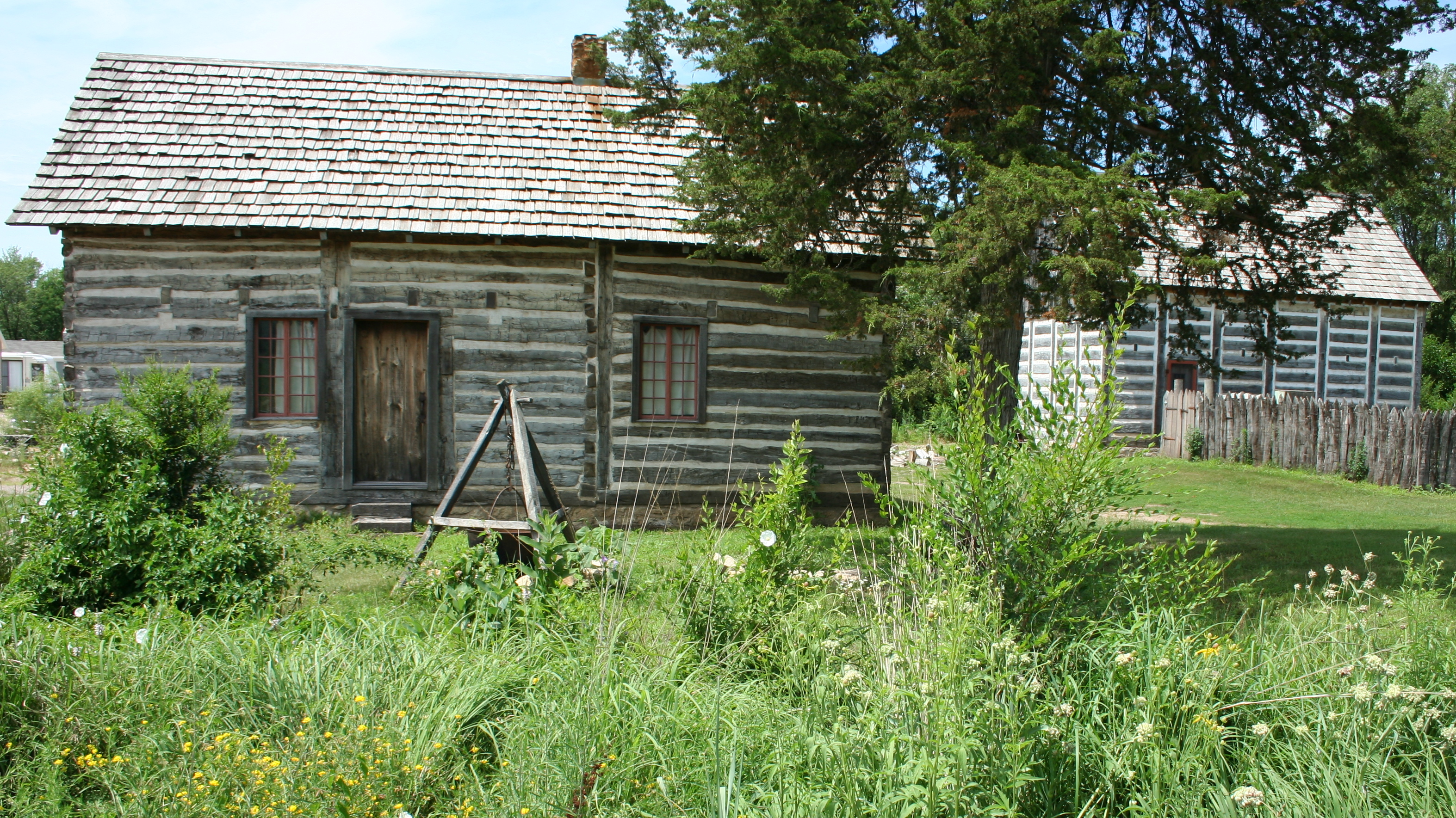 Historic Francois Vertefeuille House on Crawford County Road K near Prairie du Chien, Wisconsin